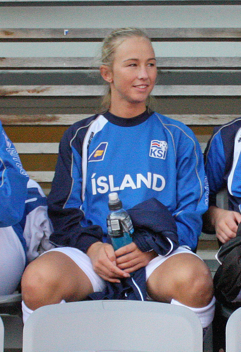 Ásta Árnadóttir. Iceland - Serbia/2011 FIFA Women's World Cup qualification UEFA Group 1